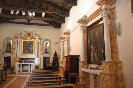 Right side of the Church of Saints Fabiano and Sebastian, Fiamognano, Italy